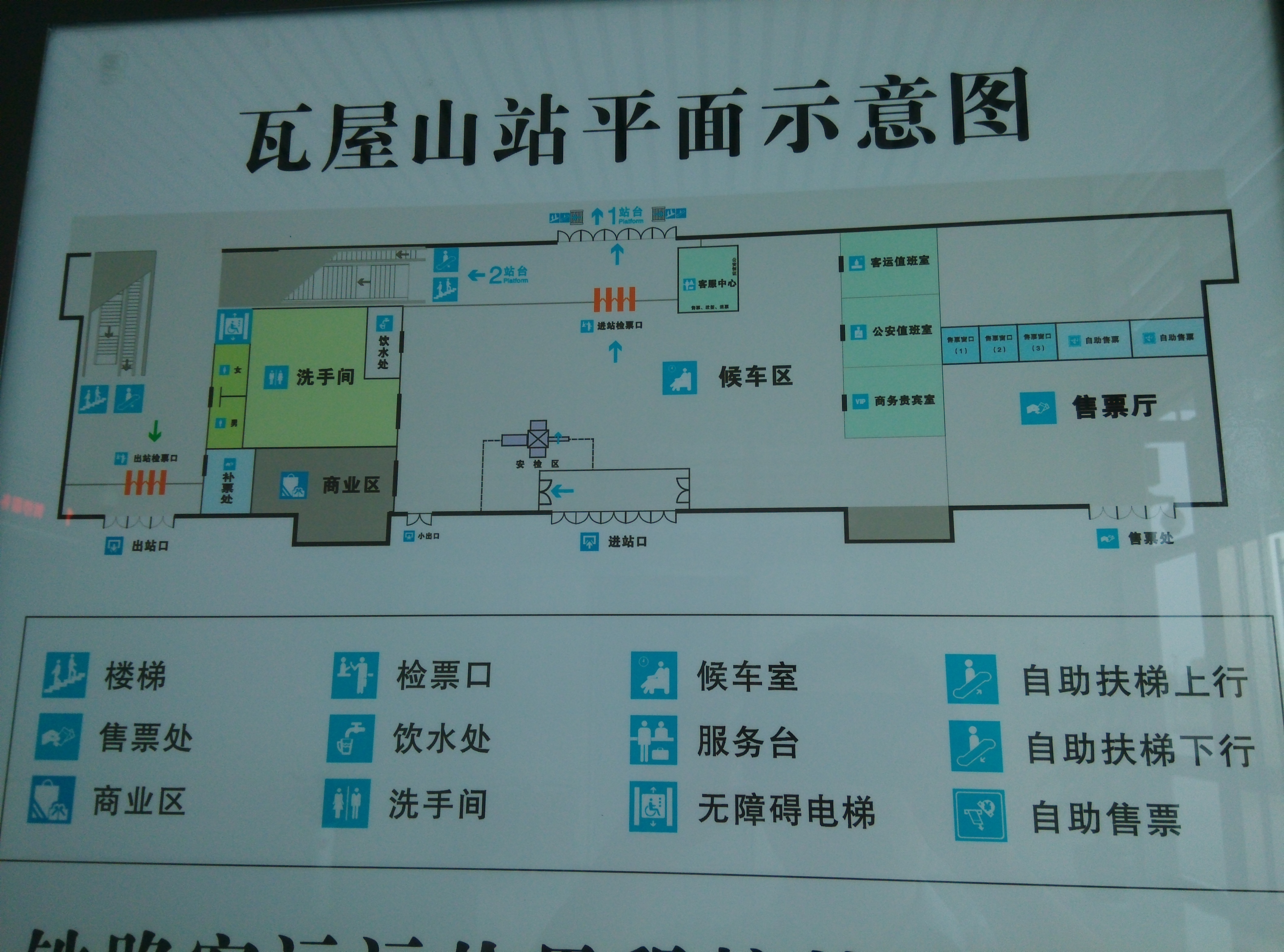 Wawushan Railway Station layout plan